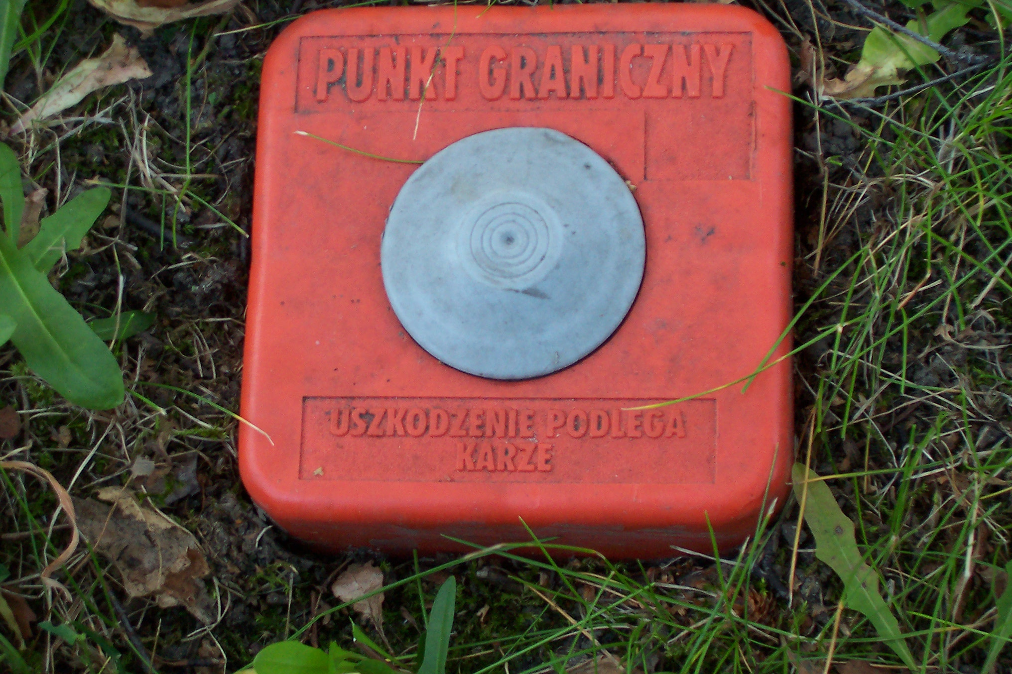 Plastic border point